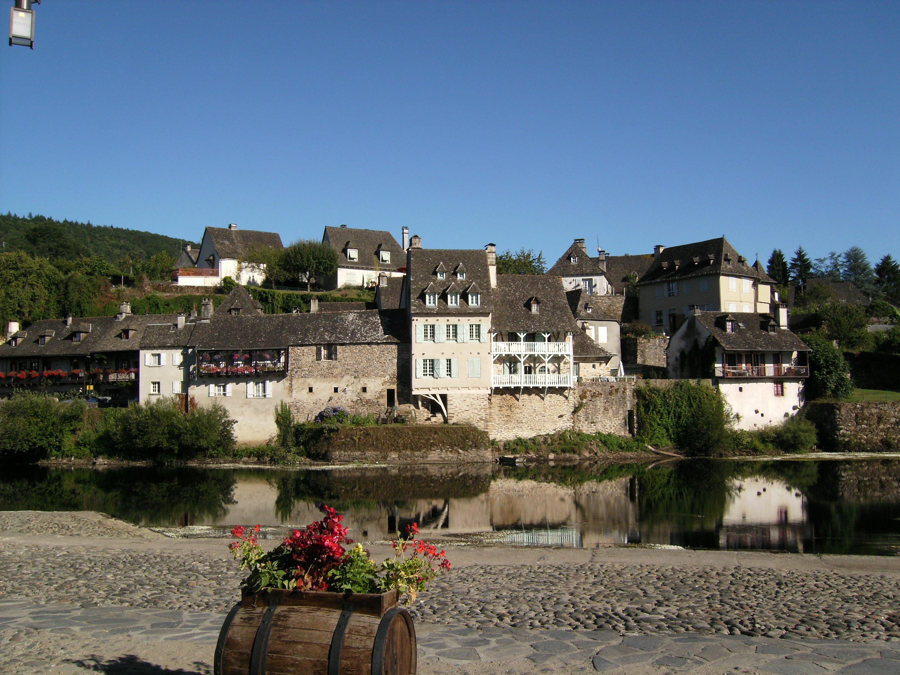 Dordogne river at Argentat in Corrèze.